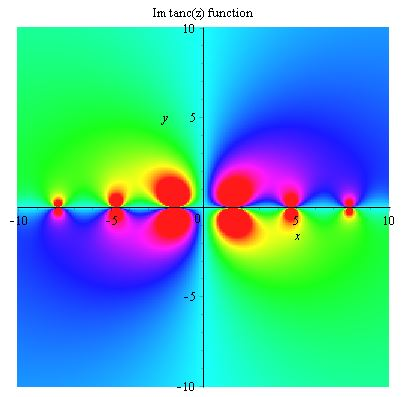 Tanc Im plot